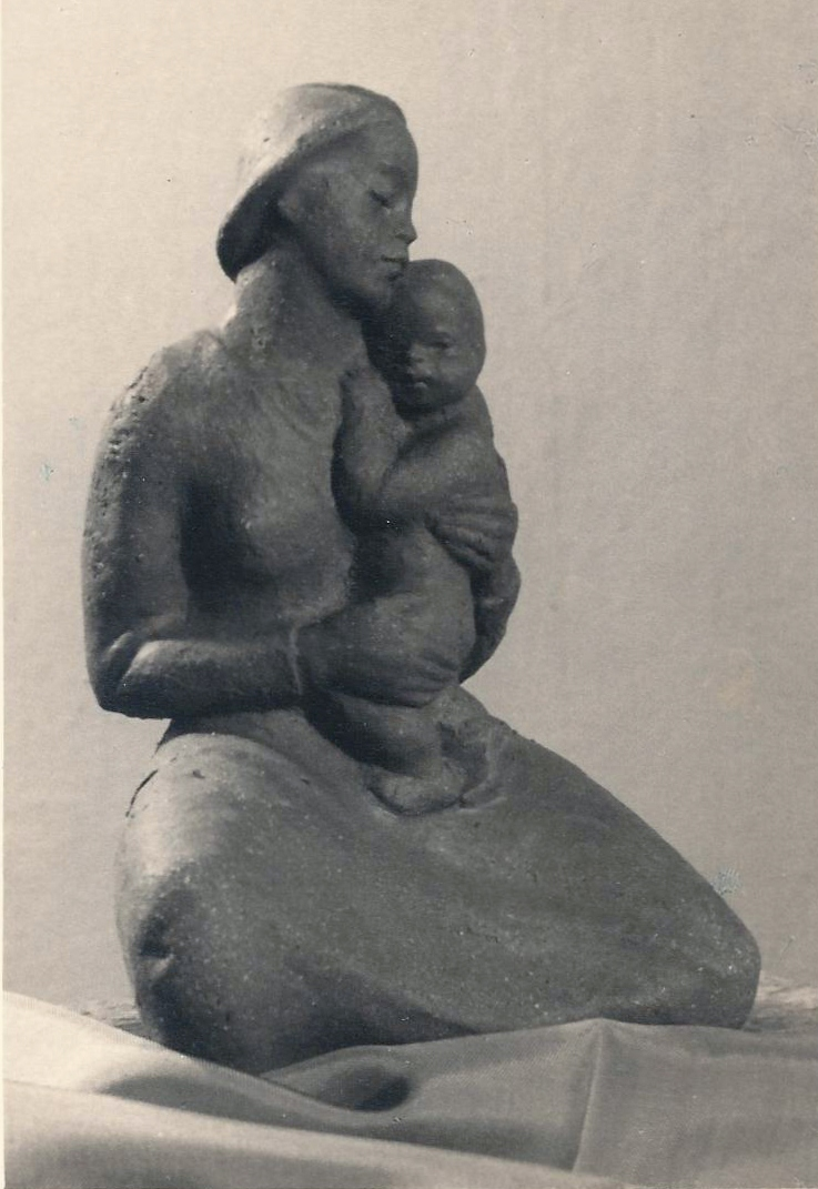 Lebensglück, gebrannte Tonplastik, Torgau 1955